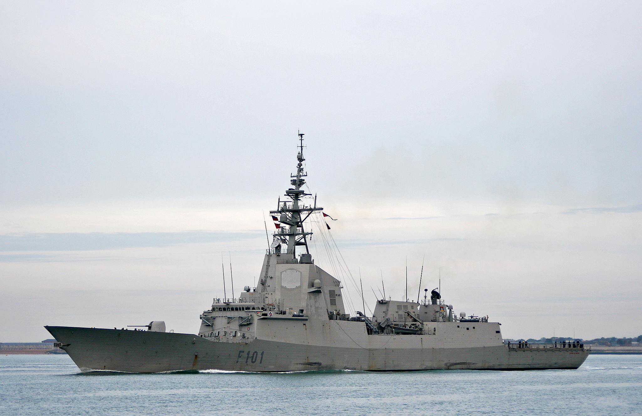 Spanish Navy frigate SPS Alvaro de Bazán outward bound from Portsmouth Naval Base, UK, 21st September 2009. Image uploaded by me User:George.Hutchinson from a photograph taken by and supplied by Brian Burnell. Wikipedia editors are reminded that the copyright remains with the photographer, and that the terms of the Creative Commons licence; that allow editors to reuse this image apply to Wikipedia editors also, as they do to other re-users of this image. Breaches of the licence terms are not only unlawful, but are also antisocial, in that breaches discourage photographers from making their images freely available to everyone without payment. Wikipedia re-users are also reminded of the license terms that derivatives of this image should not imply that the adaptation is endorsed or approved by the author or copyright holder. Neither should derivatives be presented as the creation of the author or copyright holder, while clearly stating that the adaptation is a derivative of the original. Attribution online should be in this format Brian Burnell. On the printed page, a simpler form is acceptable - example: "Image: Brian Burnell". Non-Wikipedia users are requested to advise Brian Burnell of its use other than on Wikipedia.